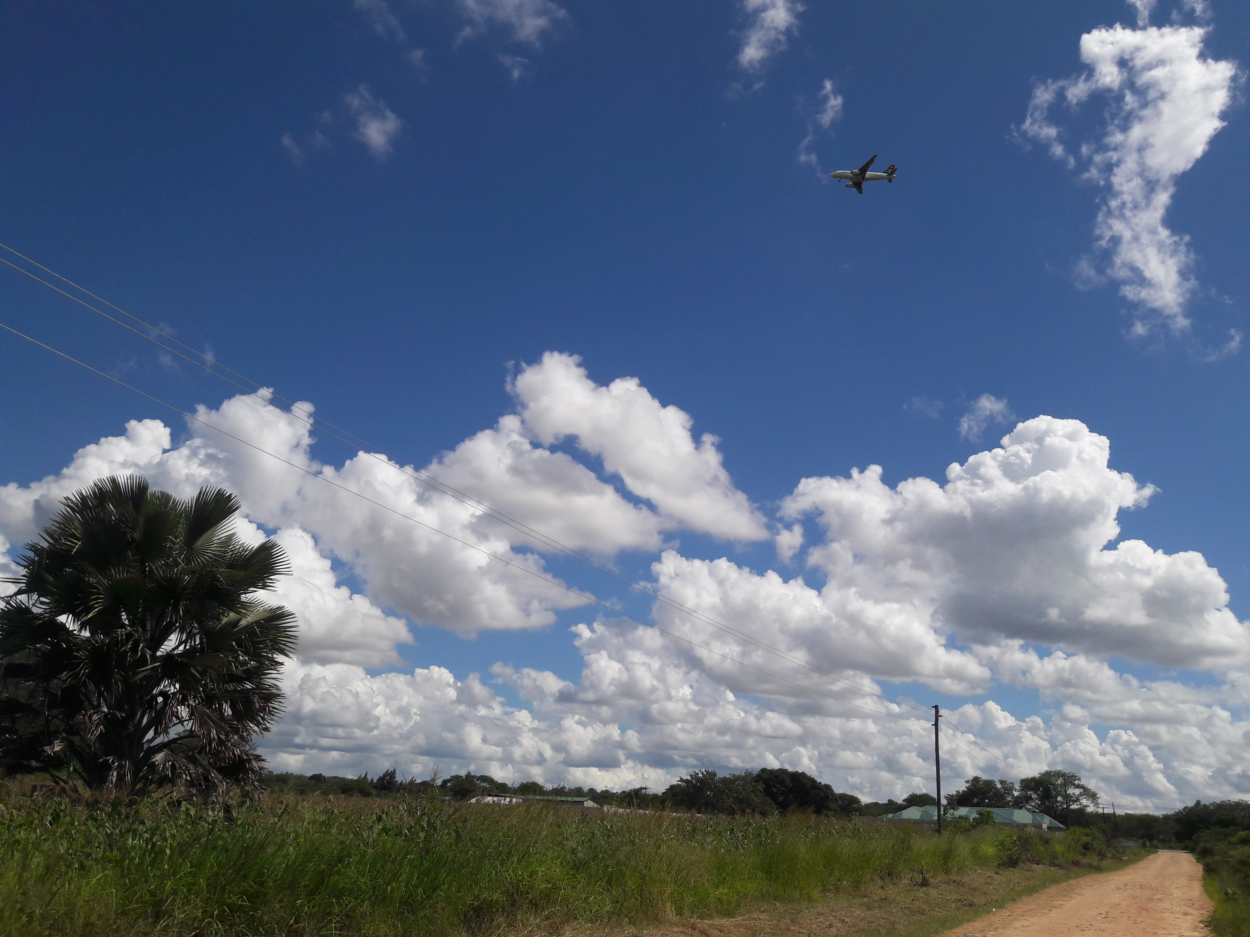 This is an image with the theme "Africa on the Move or Transport" from: Zambia